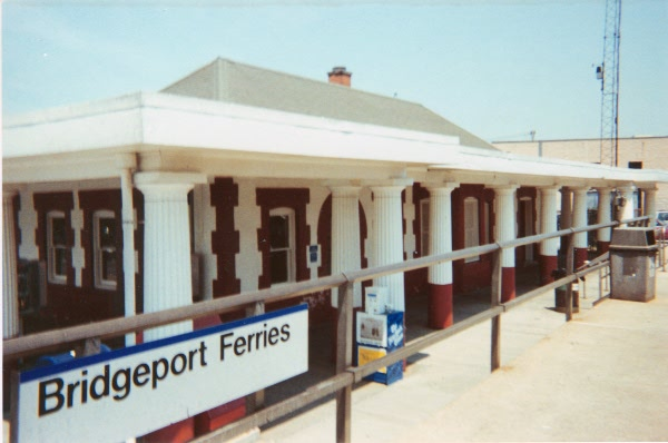 Third Photo of Port Jefferson(NY) Station taken in 1999. Only this time, no parking lot in this picture.